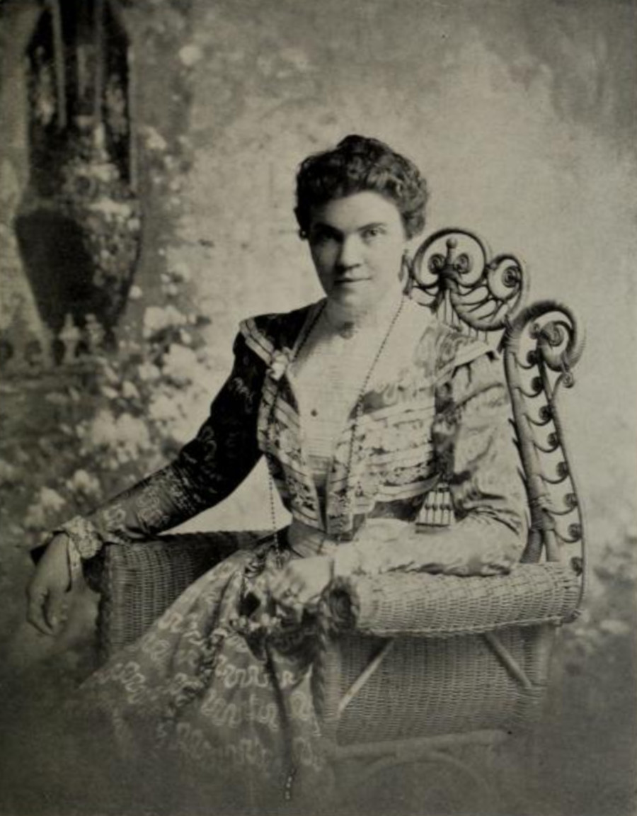 Long-time NYPD detective Mary Agnes Sullivan in civilian clothes two years before she first became a police officer.